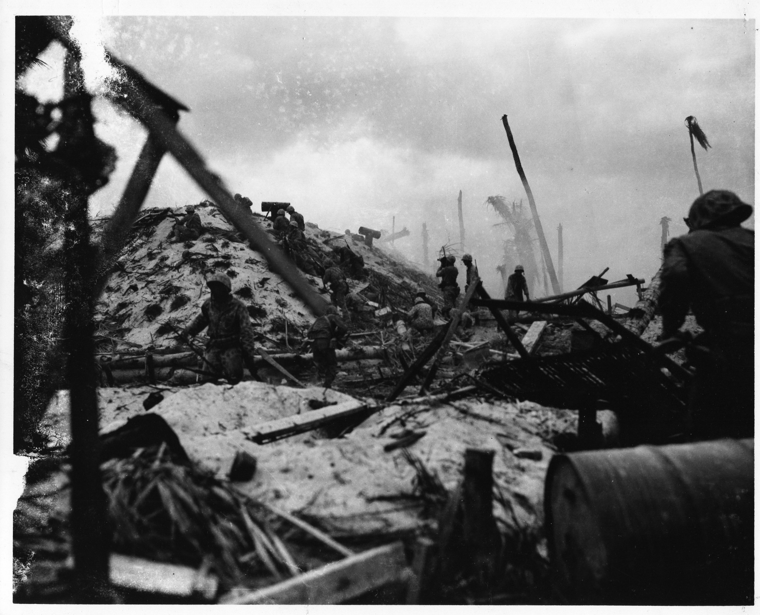 Retired Maj. Norman T. Hatch seen in the middle of the frame photographing the action during the battle of Tarawa in 1943.